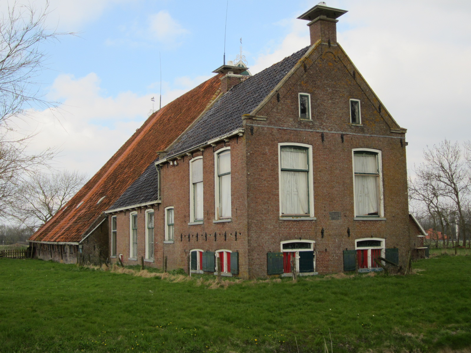 Farm Techum, District De Zuidlanden, Leeuwarden, The Netherlands.